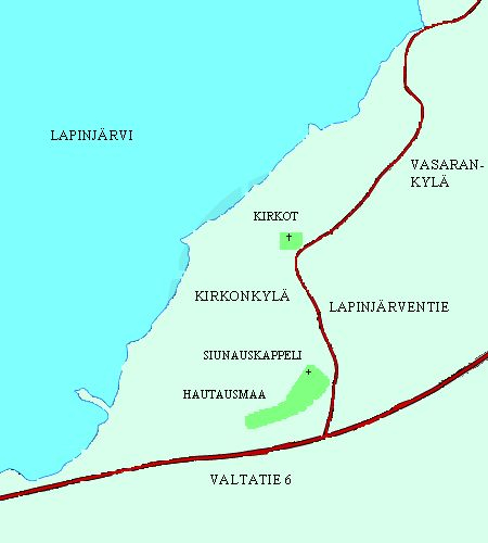 The location of the church of Lapinjärvi.